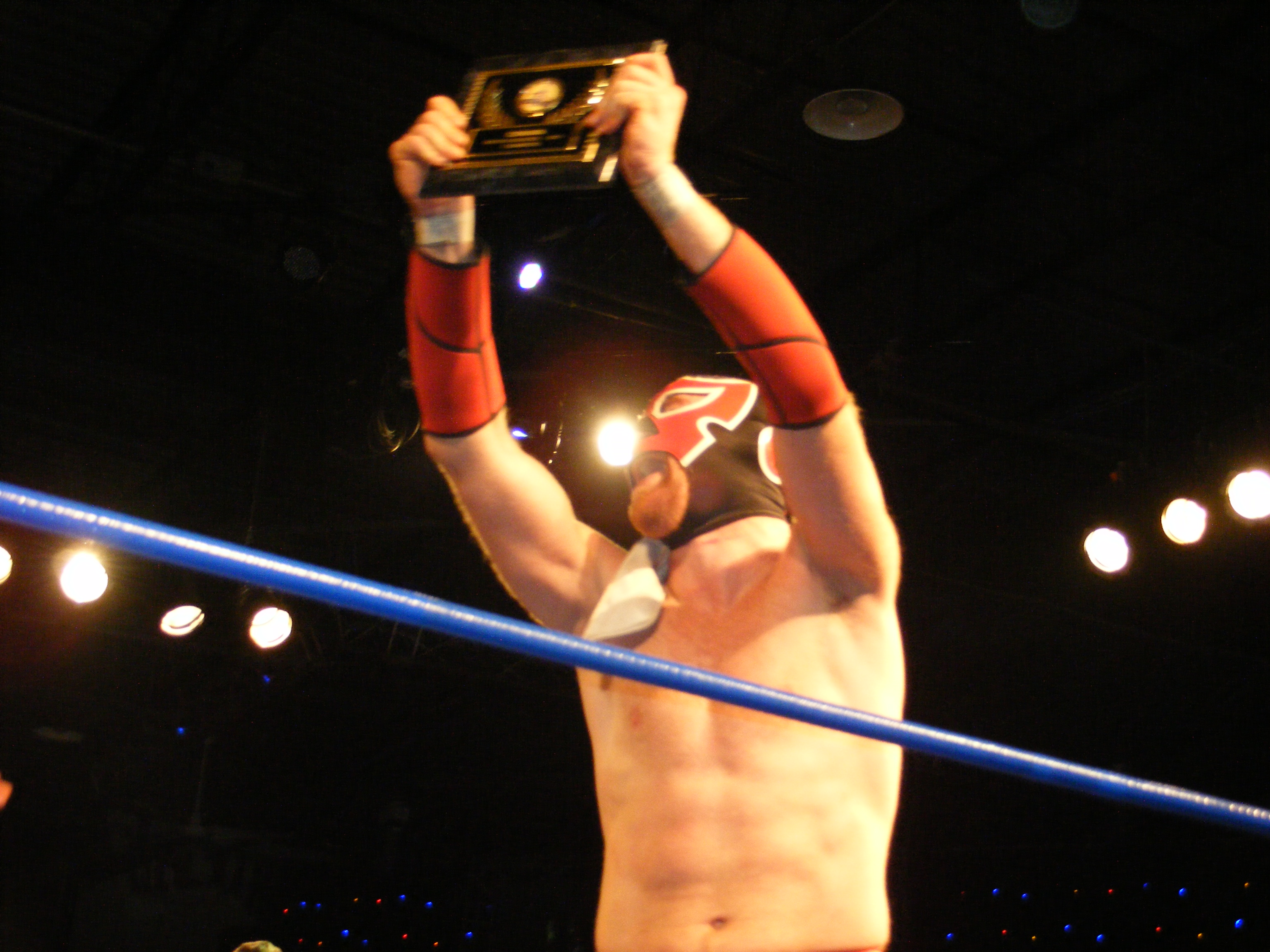 Professional wrestler El Generico holding Chikara's 2011 Rey de Voladores plaque.